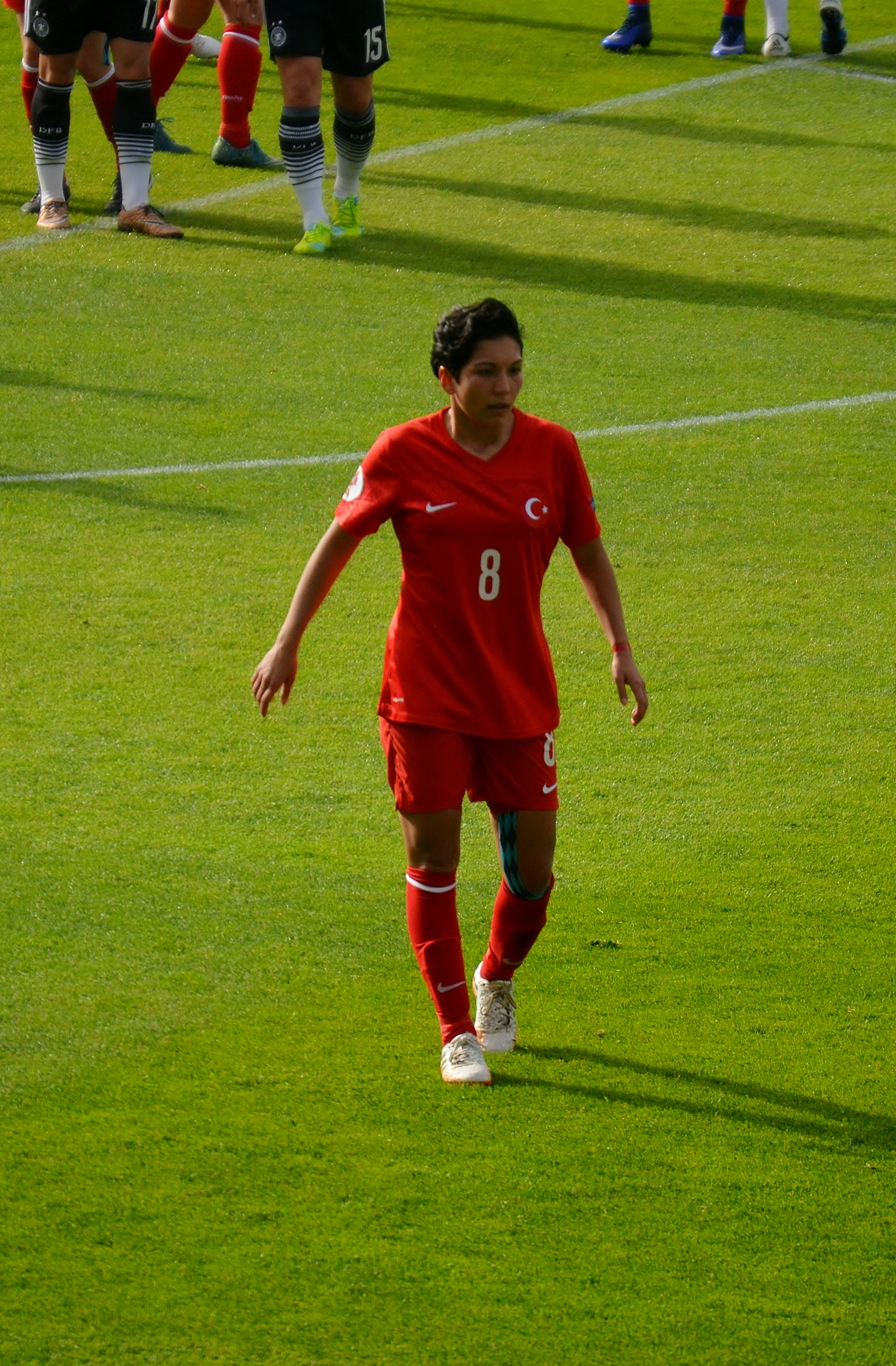 Çağla Korkmaz playing for Turkey women's national team in the UEFA Women's Euro 2017 qualifying Group 5 match against Germany